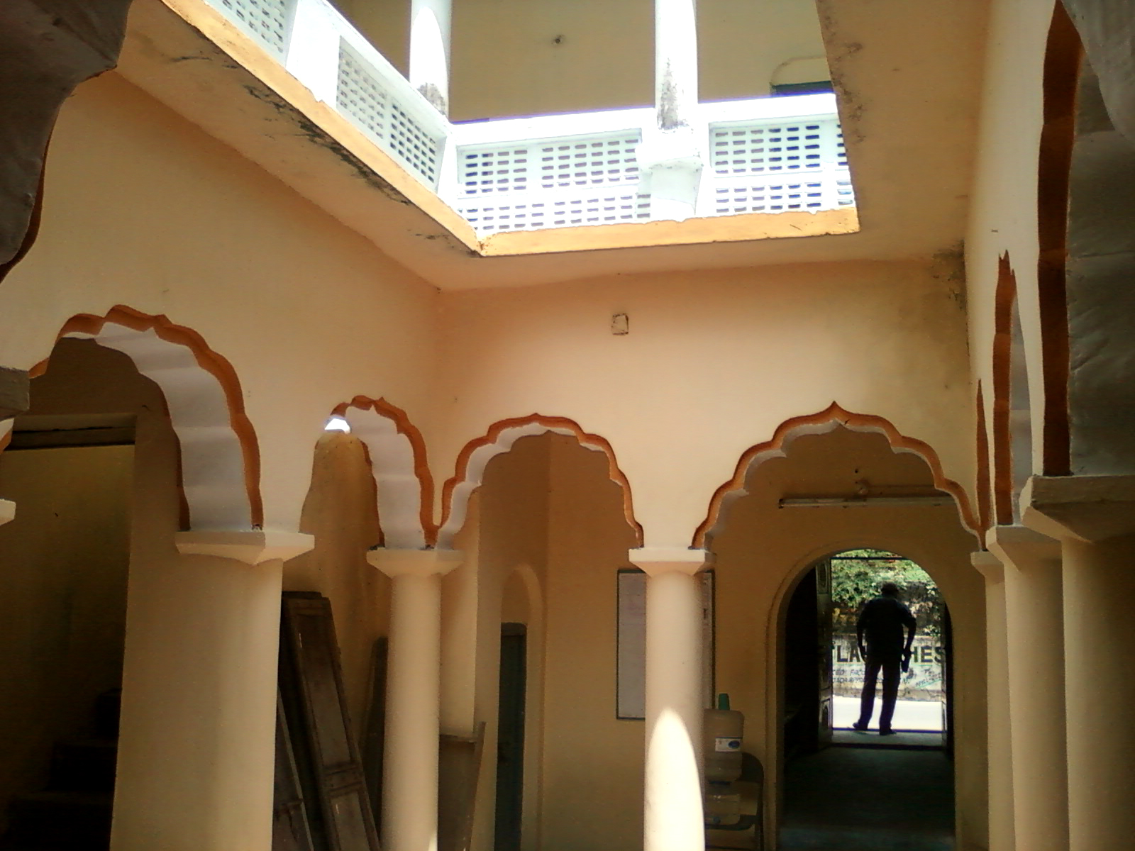 Gurajada Apparao house (presently used as a memorial library) in Vizianagaram, Andhra Pradesh